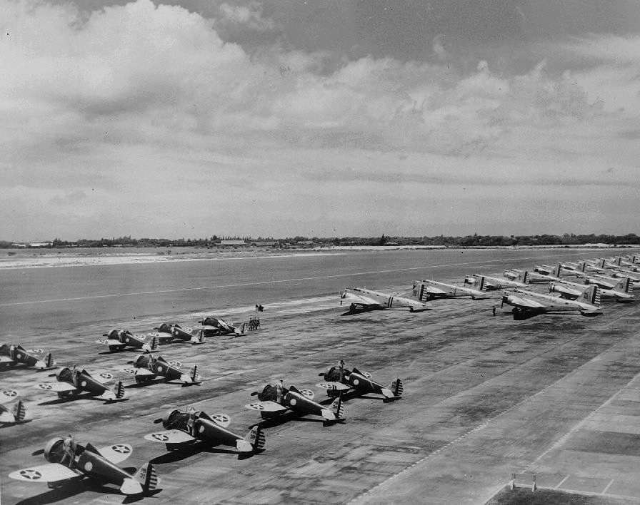 Boeing P-26s and Douglas B-18s were parked on the ramp at Hickam Field, Hawaii, in January, 1940.